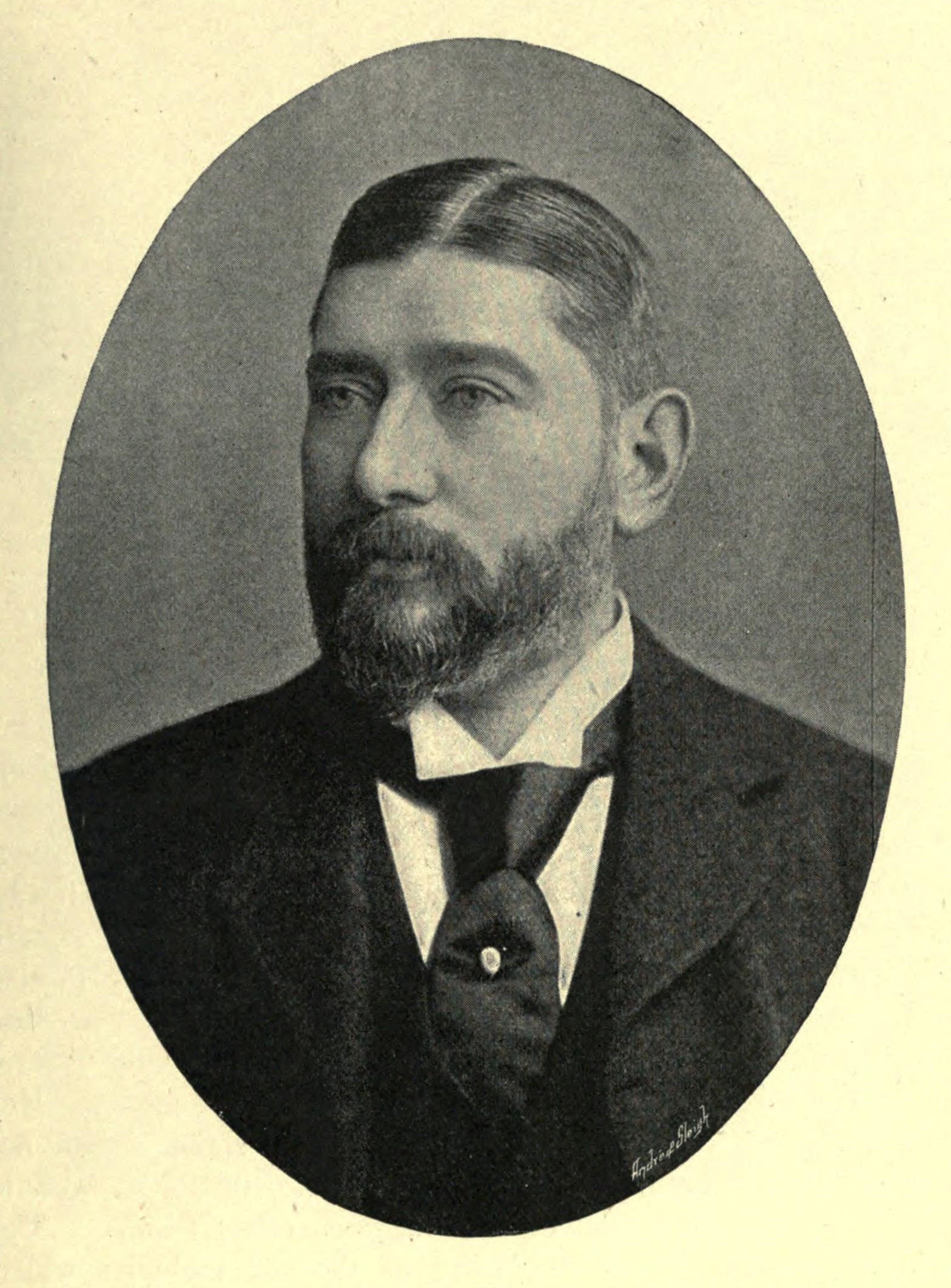 Portrait of John Roberts, Jr.